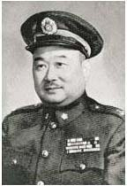 Liu Chih